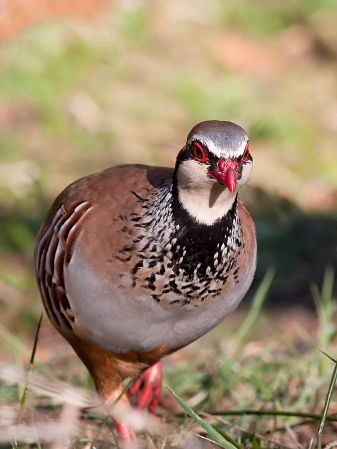 A Red-legged Partridge in Kirkmichael, Scotland.